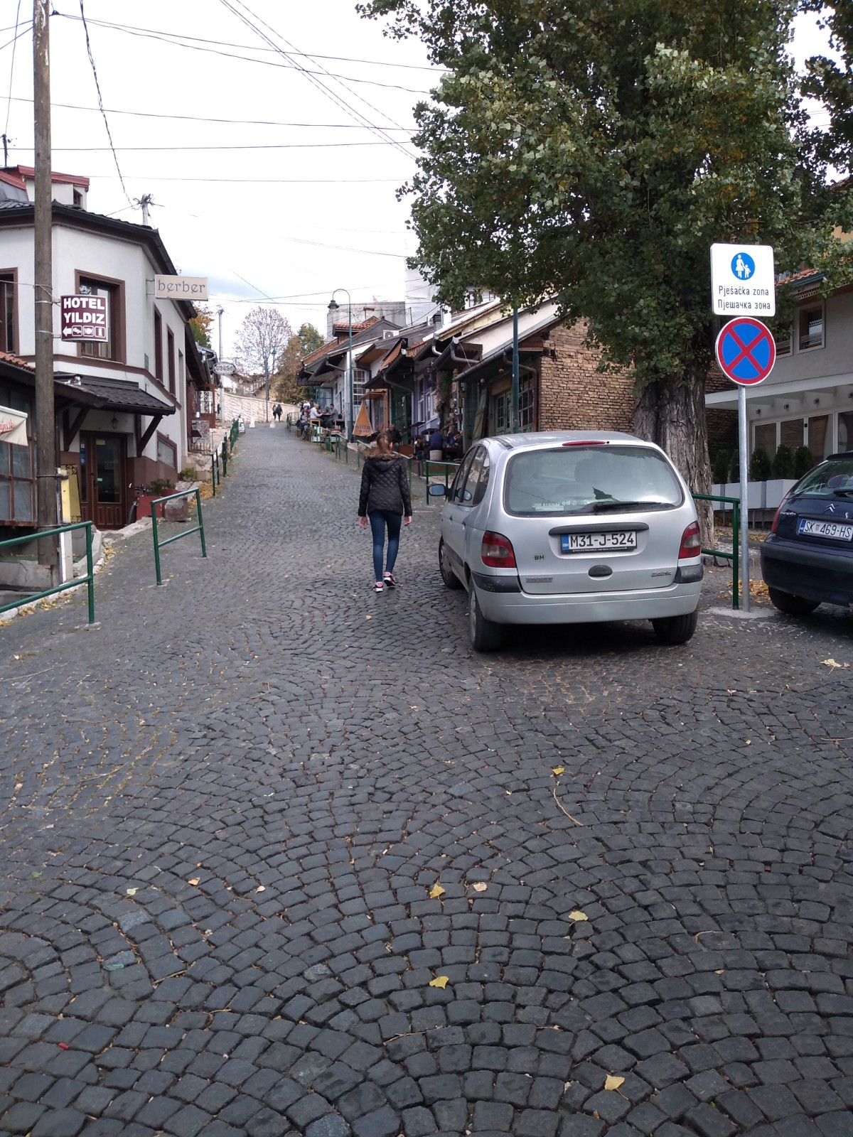 Street Kovači in Sarajevo